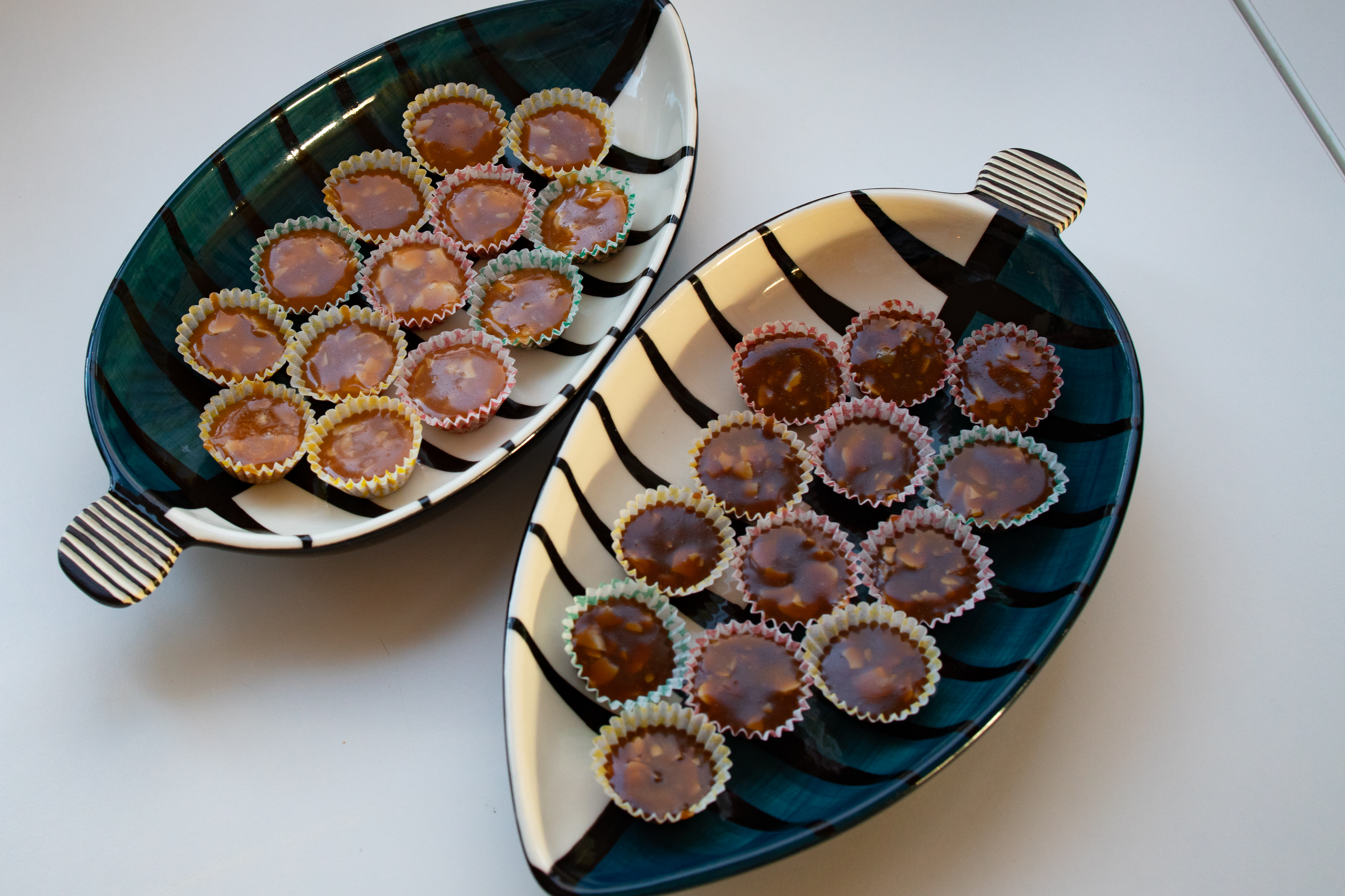 Knäck (Swedish Christmas Butterscotch). 26 pieces. Top plate made with light Swedish syrup, bottom plate made with dark Swedish syrup.